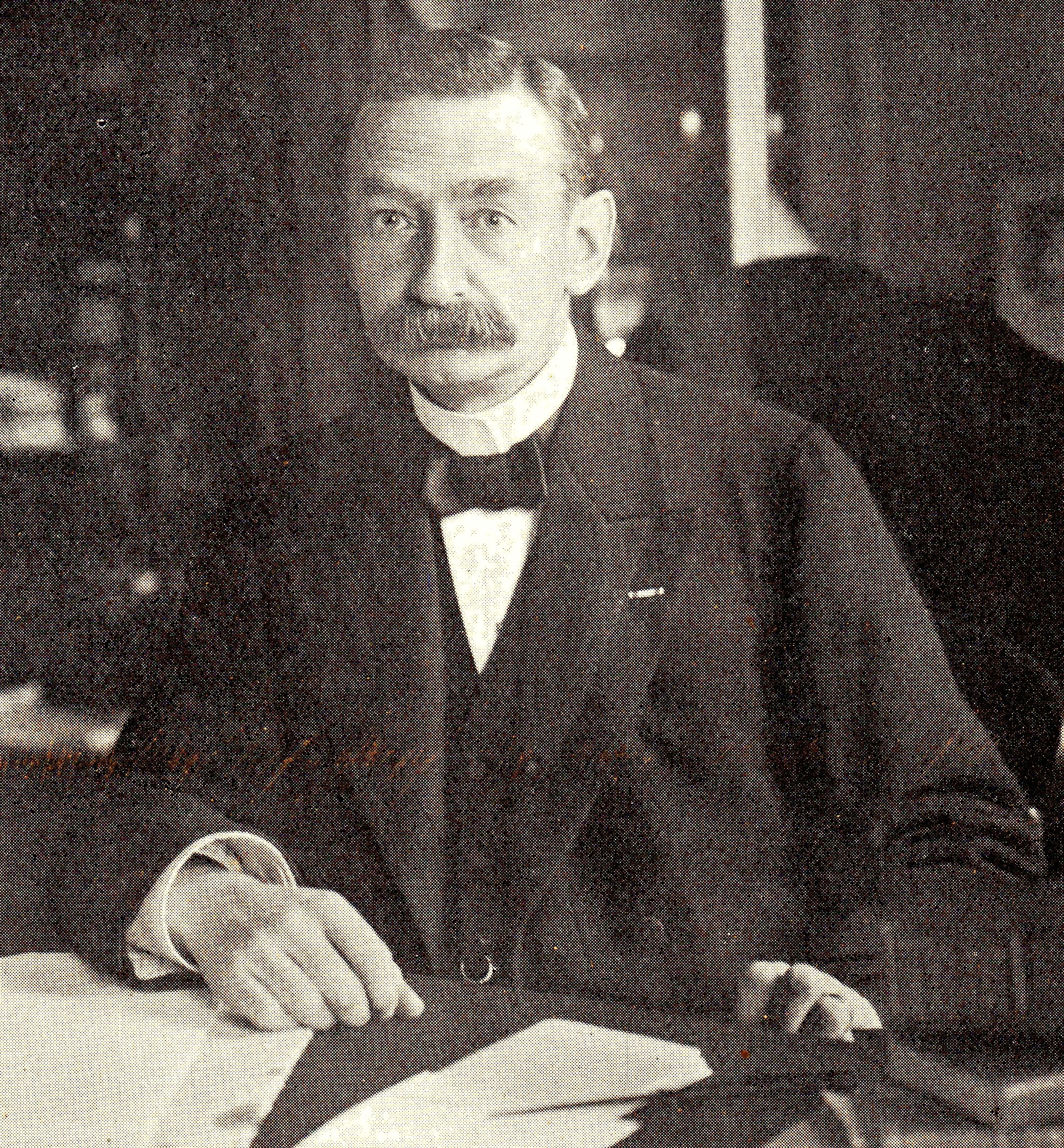 Jhr. Mr. W.H. de Savornin Lohman